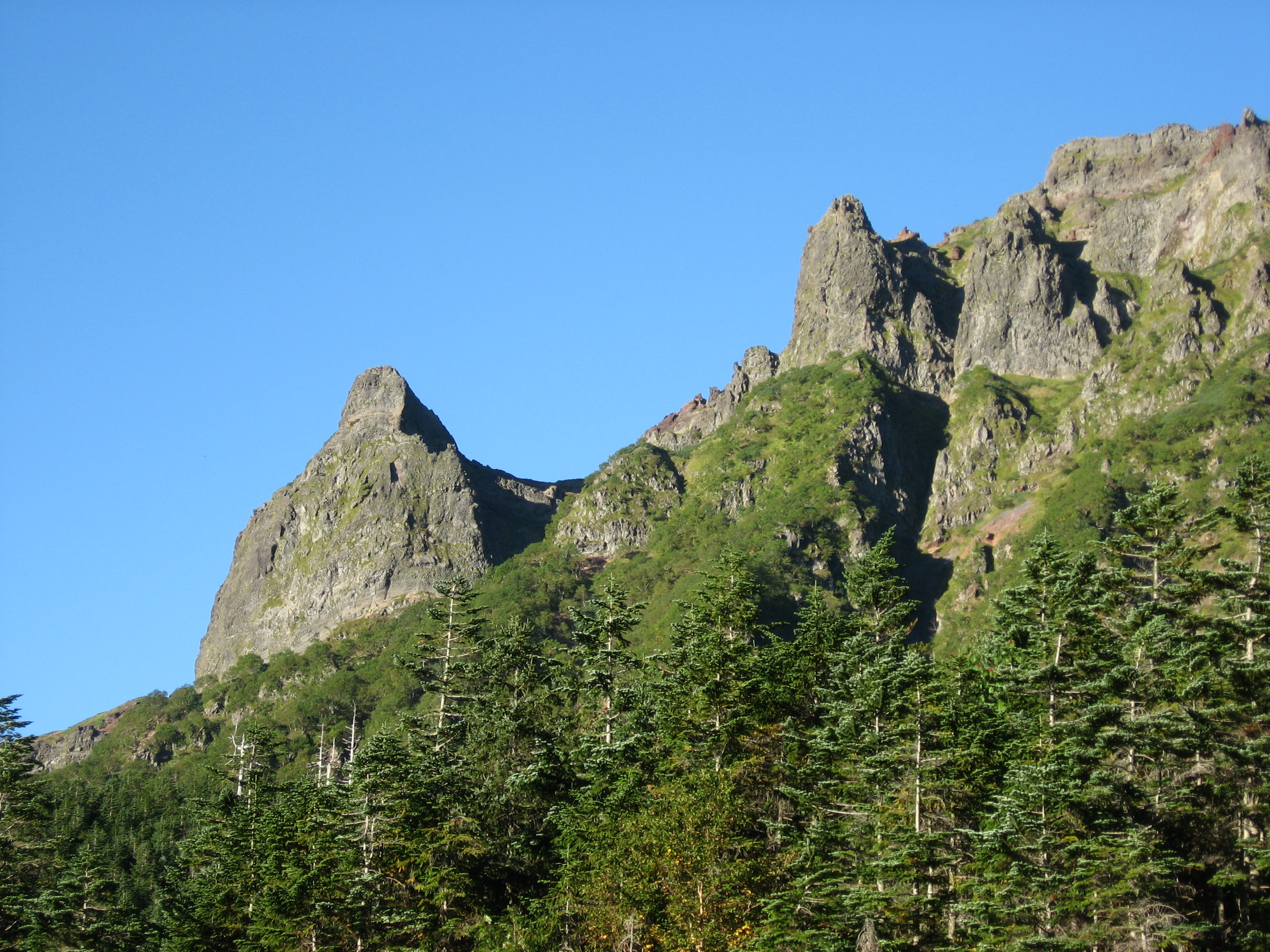 Mt.Yokodake's Daidō-shin (left) and Shōdōshin (right) from Gyōja-hut (Gyōja-goya), Mts.Yatsugatake, Nagano, Japan.